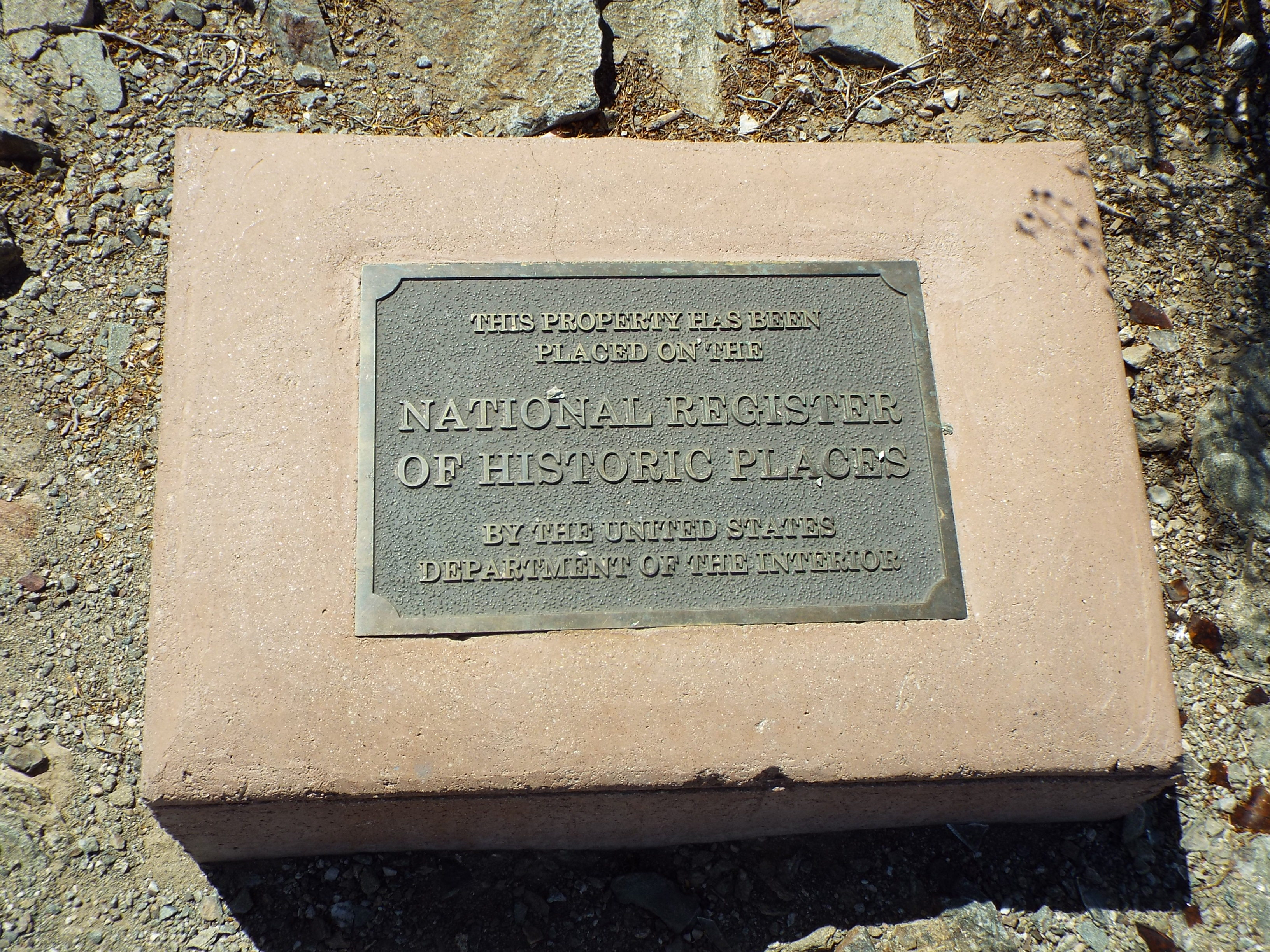 The National Register of Historic Places marker on Monument Hill in Avondale Az where the initial point of the Gila and Salt River Meridan is located. The marker and contents are the work of the US Dept. of the Interior, therefore PD. The plaque and its contents are the work of an employee of the Bureau of Land Management.